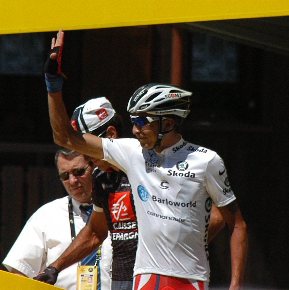 Mauricio Soler at the start of stage 8 in Le Grand Bornand, Tour de France 2007.